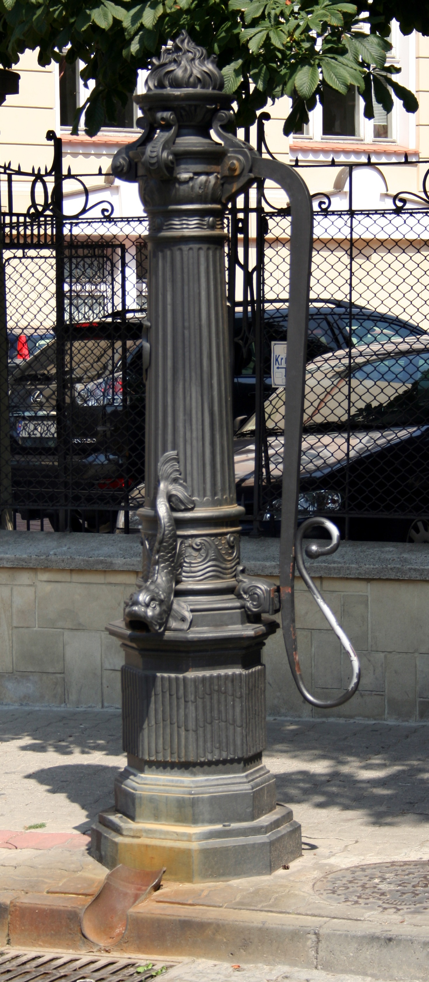 Village pump in Rzeszów — Poland.